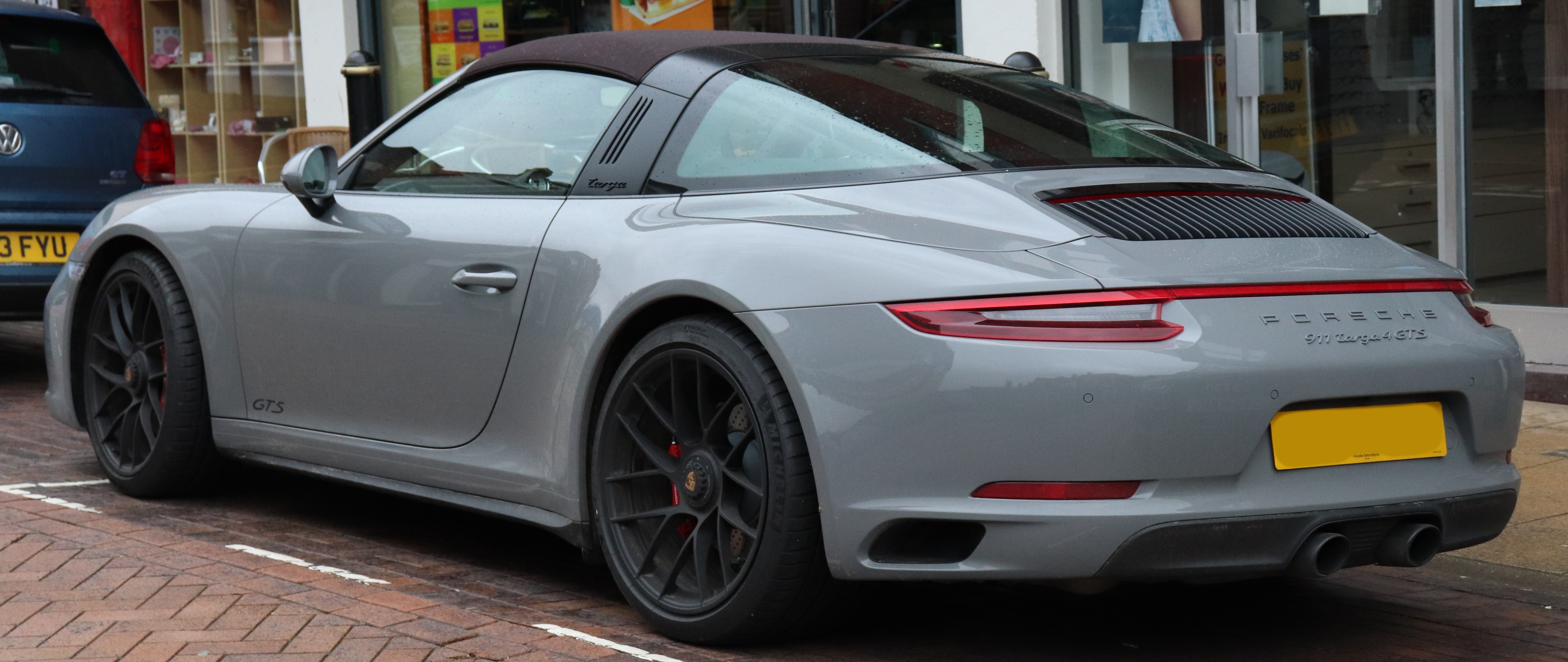 2018 Porsche 911 Targa 4 GTS S-A 3.0 Rear Taken in Warwick